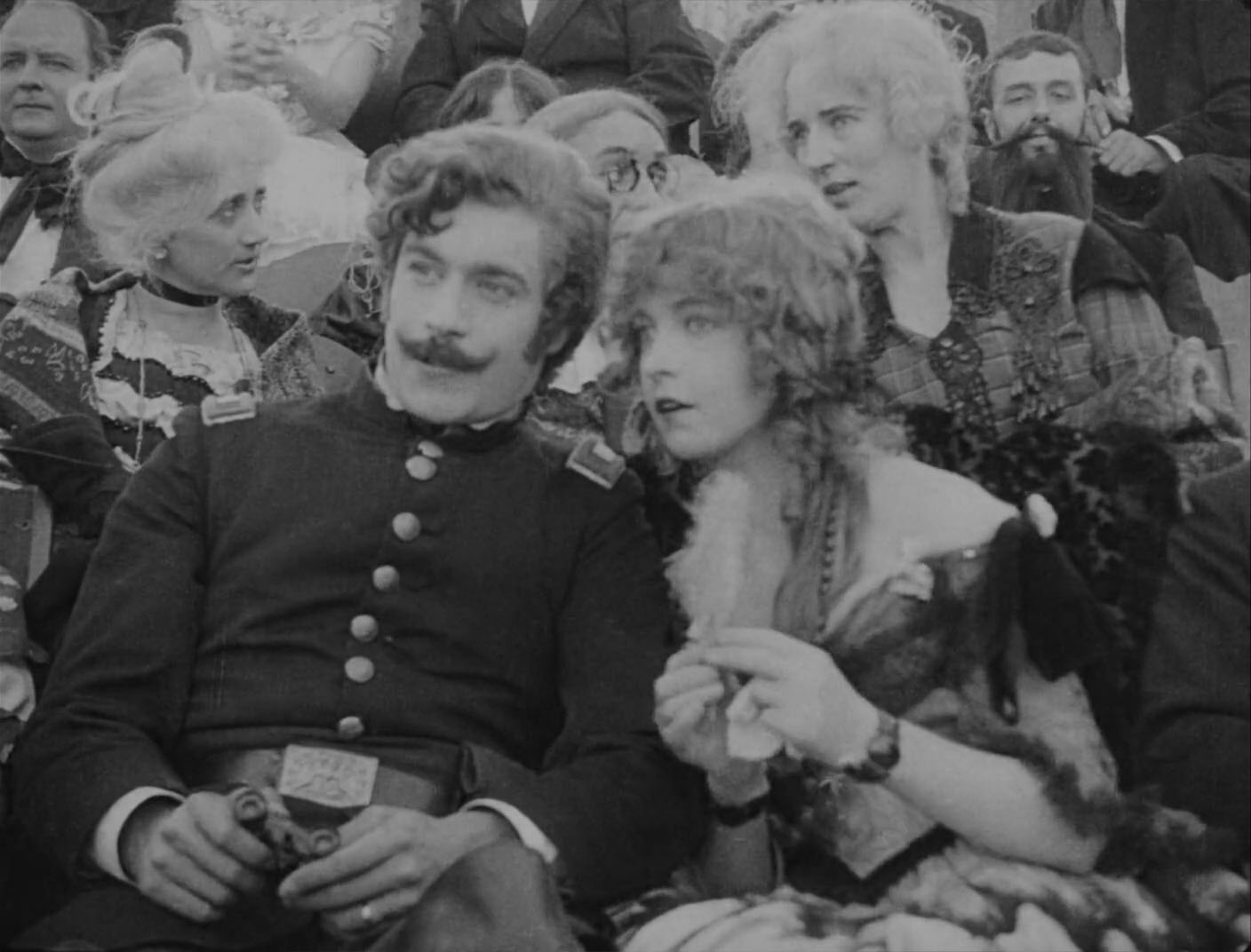 Scene from the movie Birth of a Nation, 1915 : Elmer Clifton (Phil Stoneman) & Lillian Gish (Elsie Stoneman)